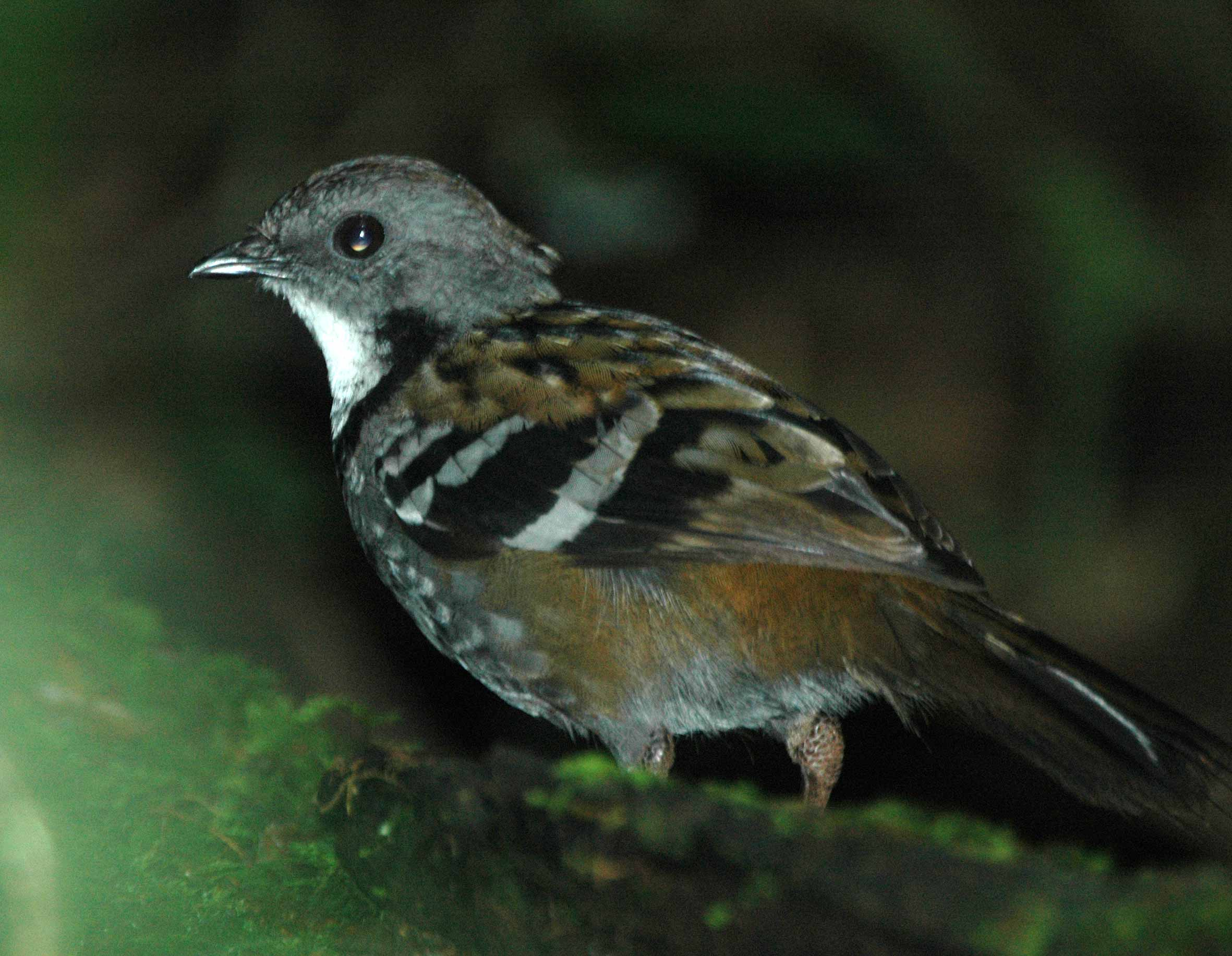 Logrunner (Orthonyx temminckii) Lamington NP, SE Queensland, Australia